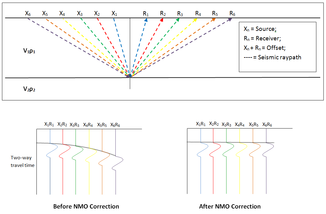 Diagram shows how seismic data is sorted in common-midpoint and then NMO corrected.